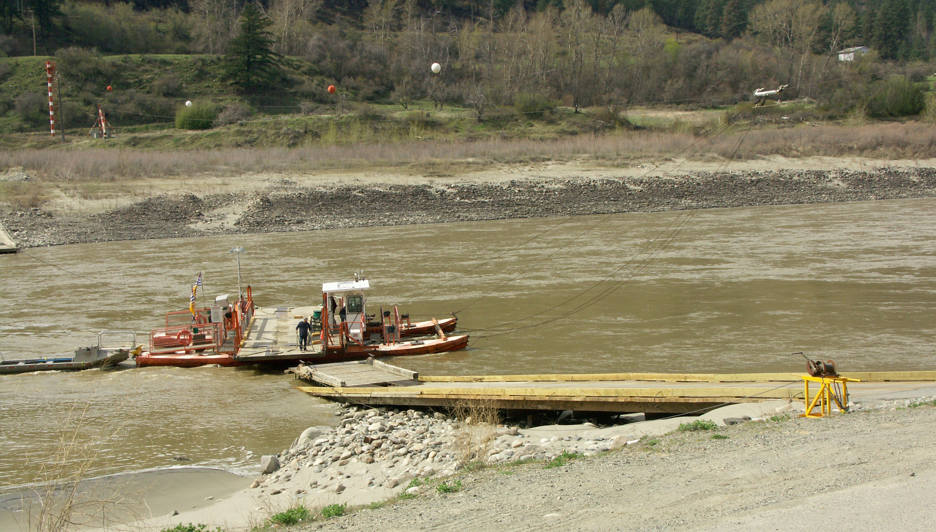 Reaction ferry in Lytton, British Columbia. The traveller which runs along the suspended cable can be seen in the upper right quadrant of the image.